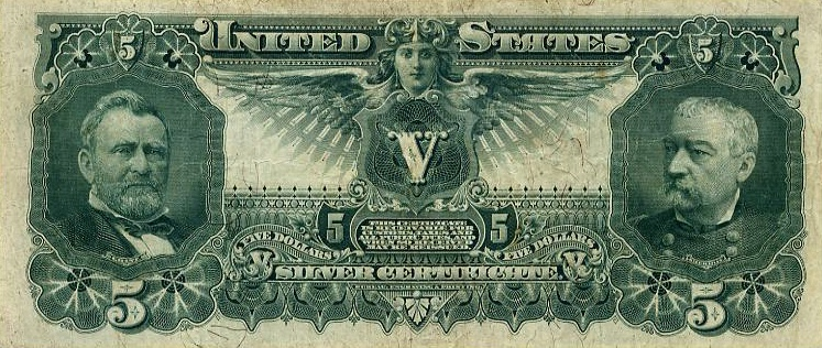 Reverse of the Series of 1896 Silver Certificate. Busts of Ulysses S. Grant and Philip Sheridan.